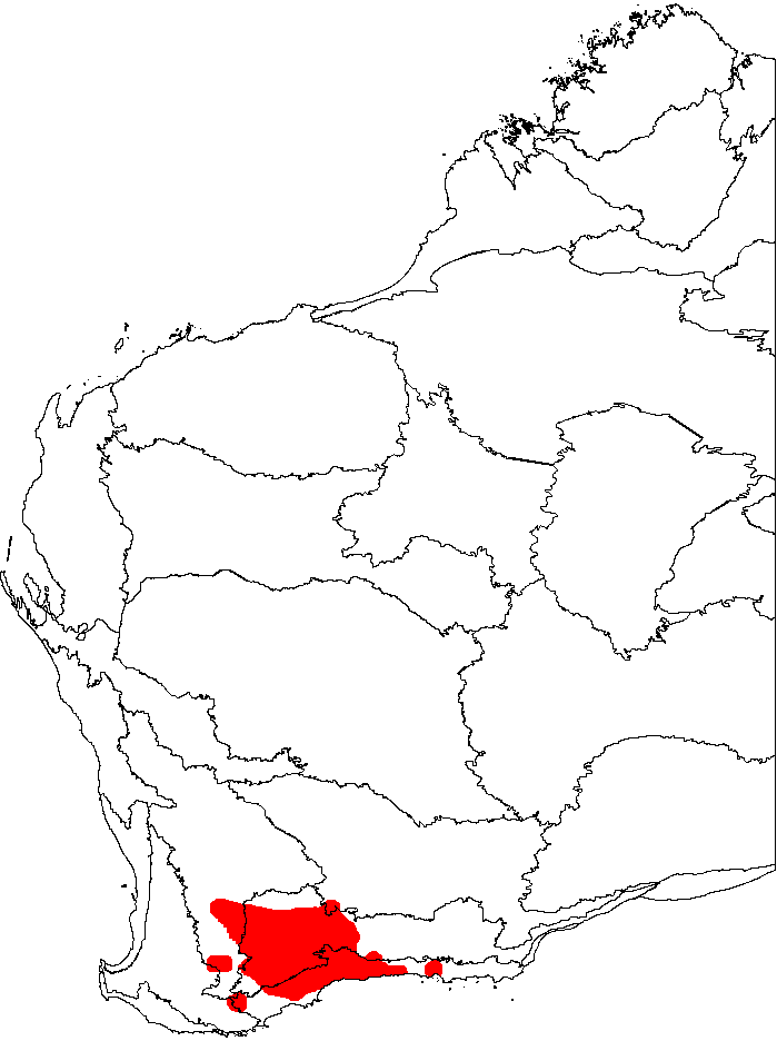 This is a map of Western Australia, showing the distribution of Banksia violacea on a map of the IBRA 6.1 biogeographic regions.